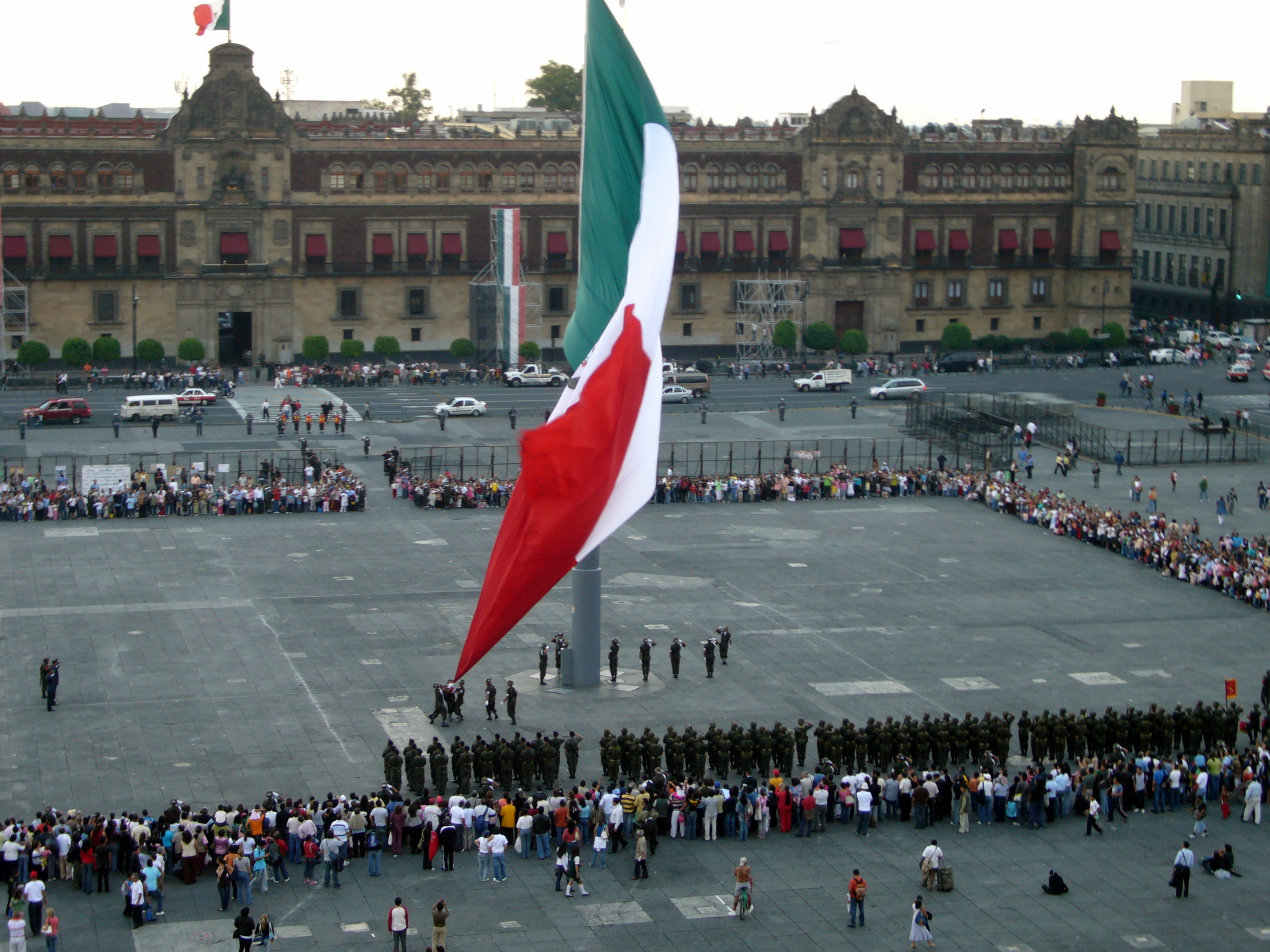 Plaza de la Constitución − Zócolo — in the Historical Center of Mexico City.